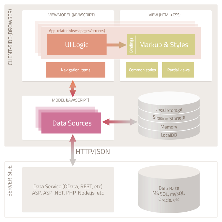 Single Page Applications structure, client and server side levels.